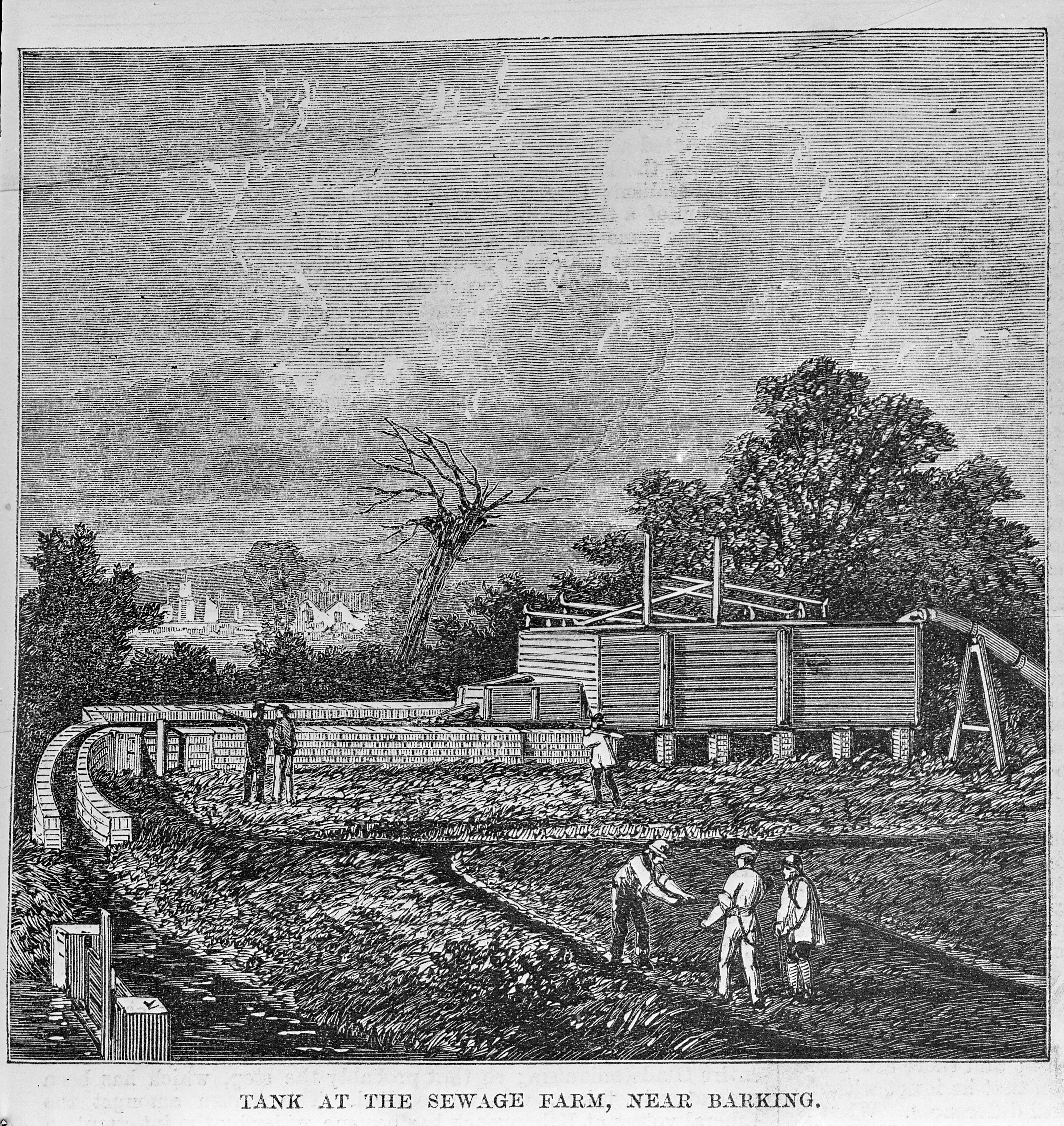 Sewage farm near Barking. General Collections Keywords: barking; essex; Topography; Sewage